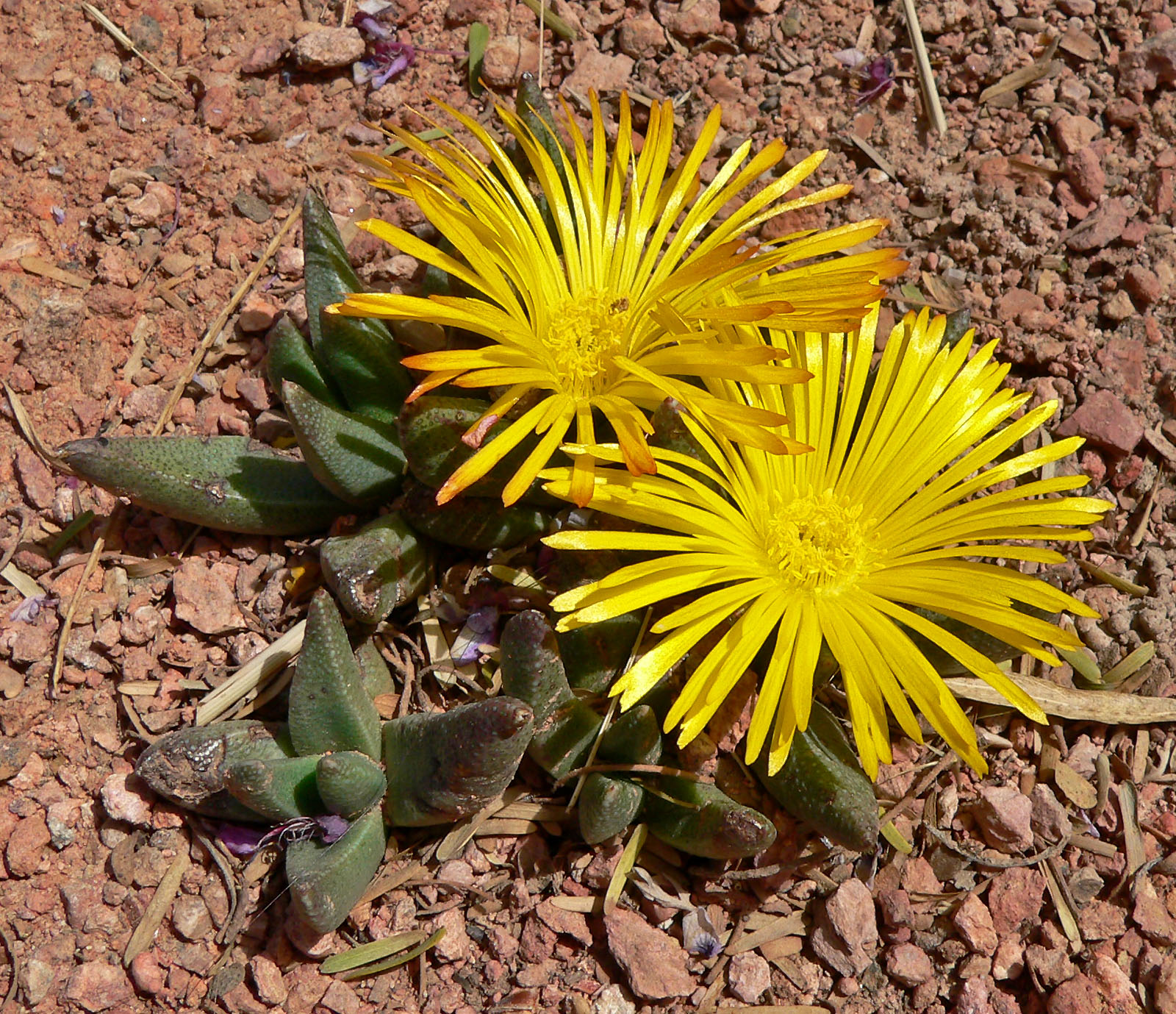 Rabiea albipuncta at the Springs Preserve garden, Las Vegas, Nevada